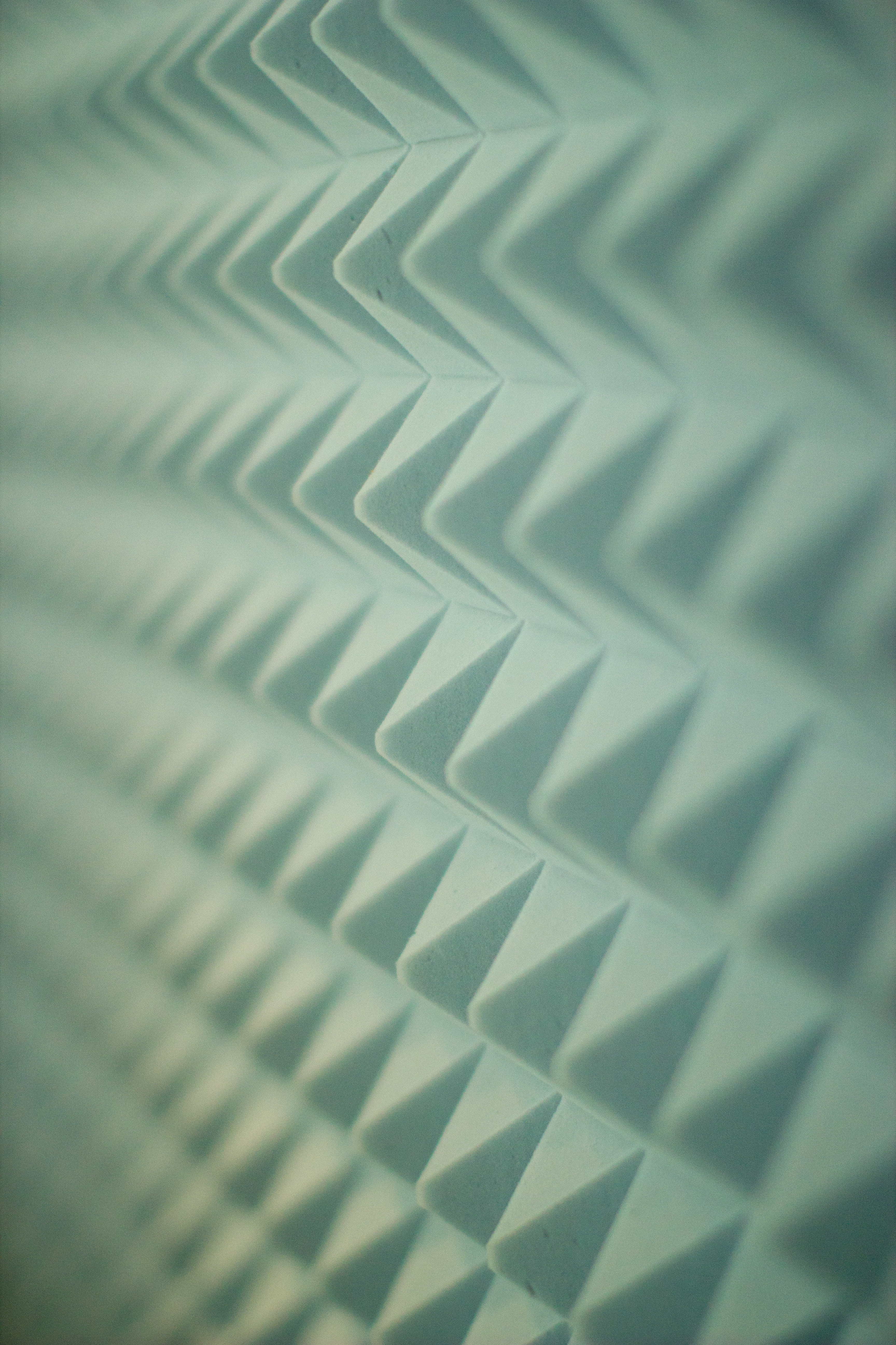 An-Najah University sound proofing